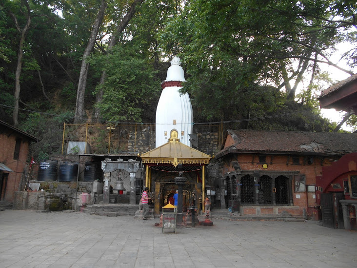 सुर्यविनायक मन्दिर